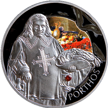 Belarus and the global community. Commemorative coins "Porthos"